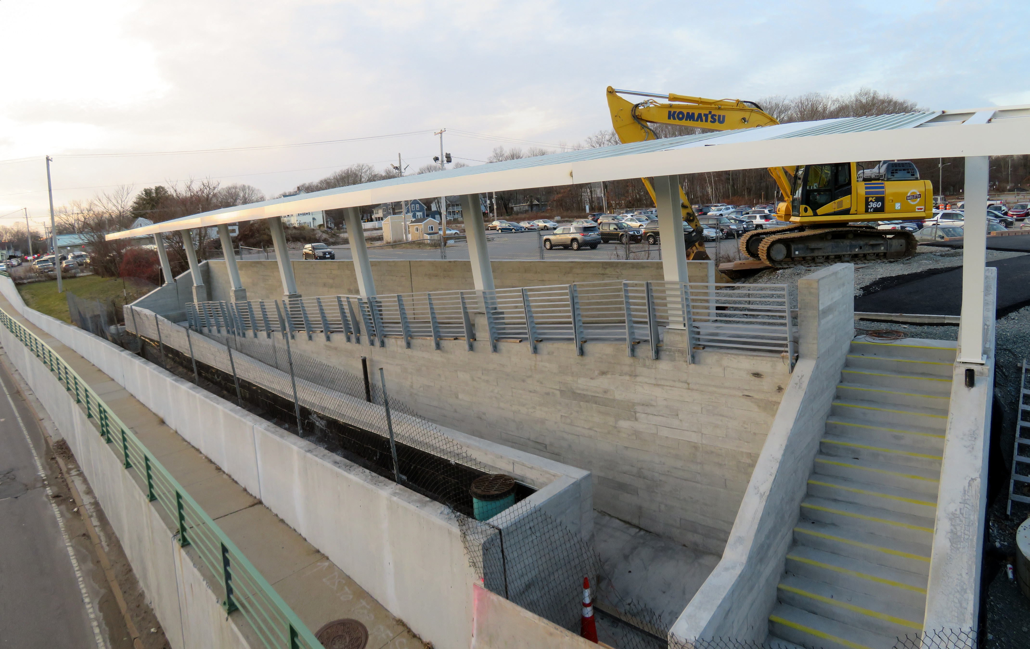 Ramp between the outbound platform and the Route 106 underpass under construction at Mansfield station in December 2018